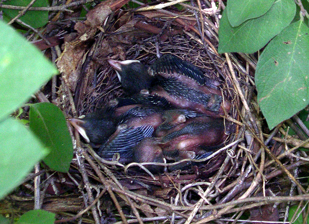 A Gray Catbird nest with three chicks.